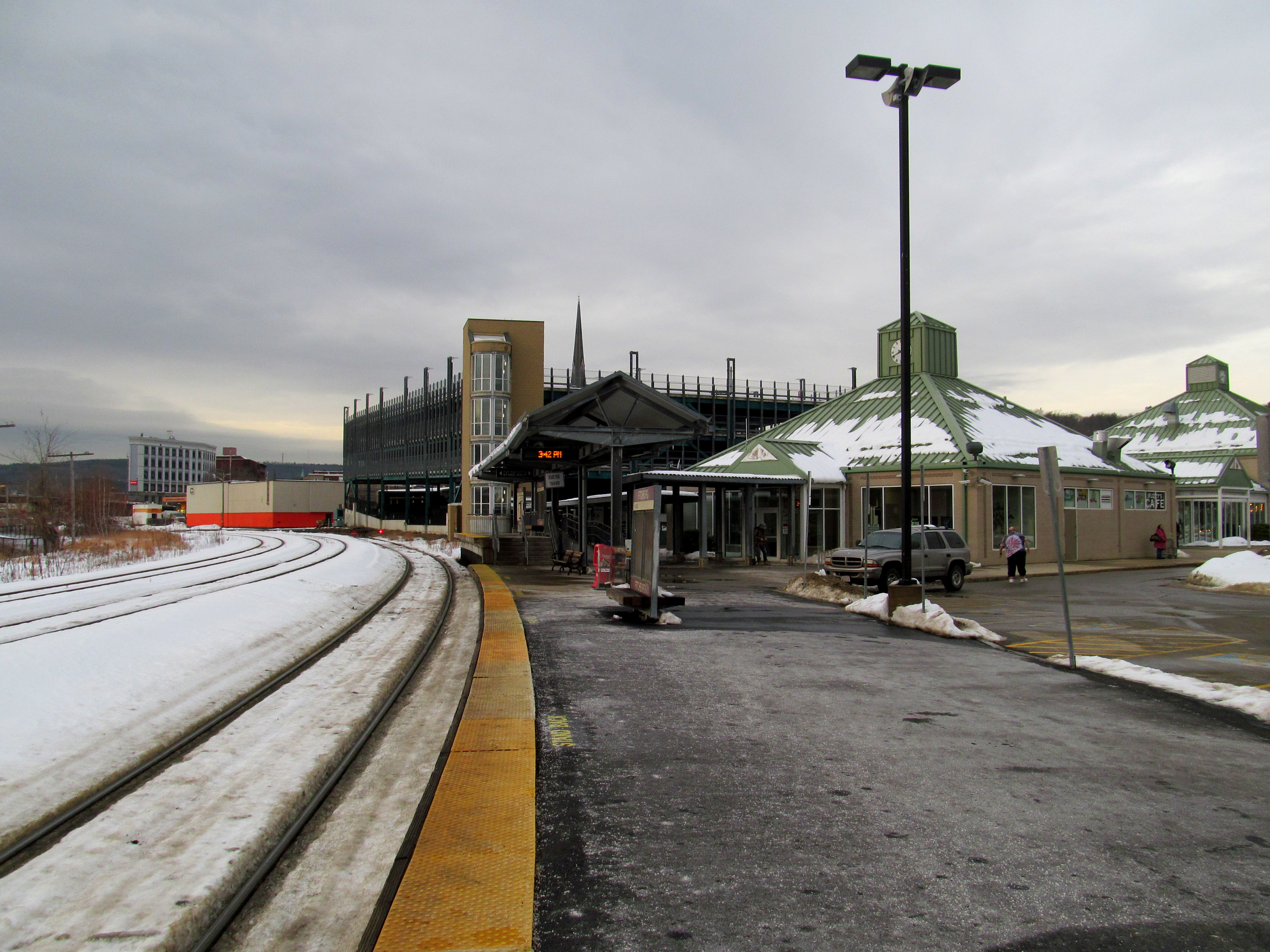 Fitchburg station viewed from the platform in December 2013